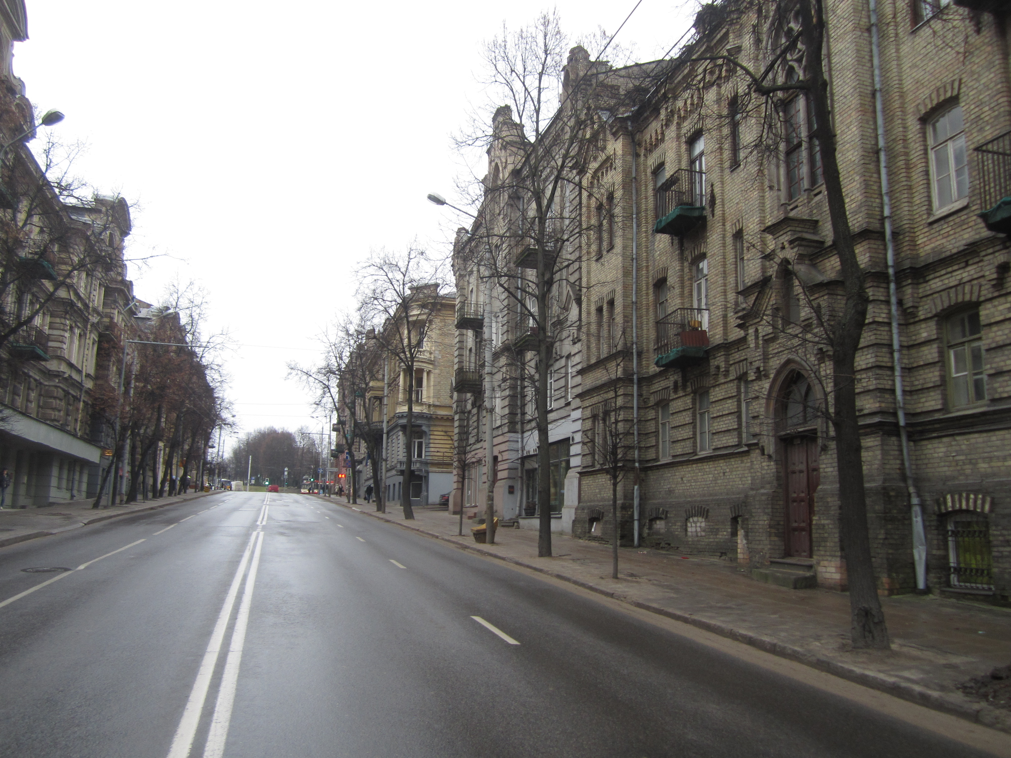 Vilhelmo Šopeno Street in Vilnius